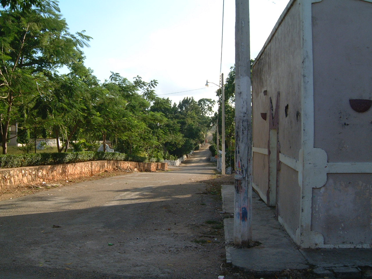 Street in Maní, Yucatán, Mexico